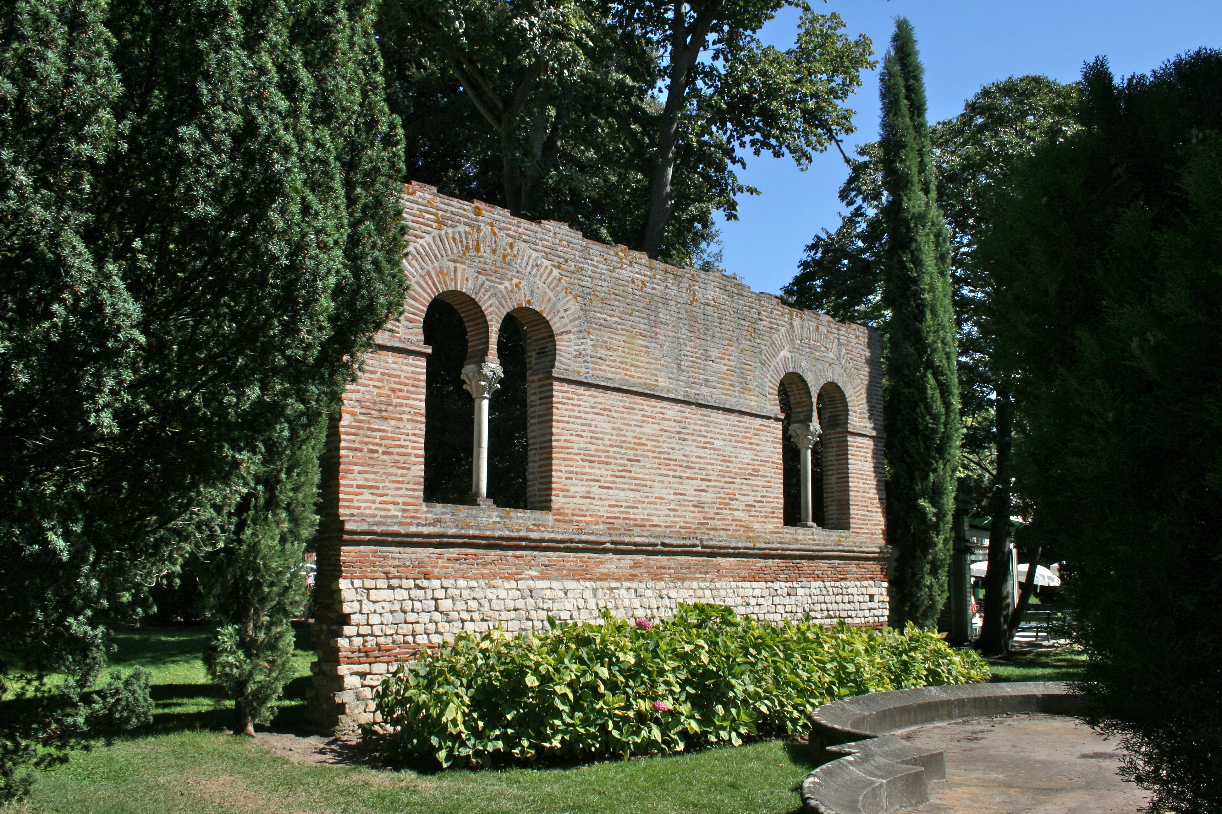 A segment of wall in the Jardin des Plantes, Toulouse, in the south of France.